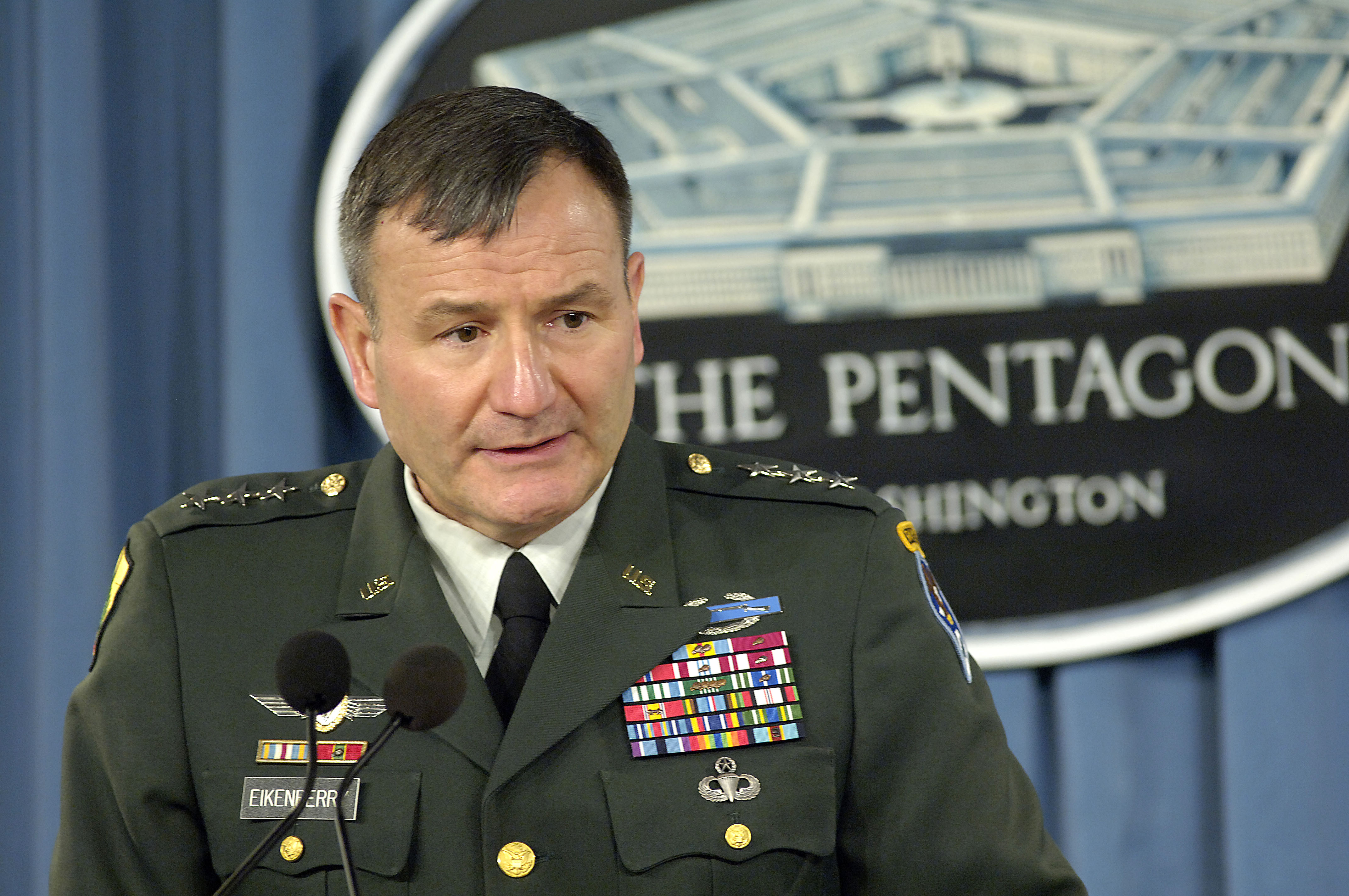 Commanding General for Combined Forces Command Afghanistan Lt. Gen. Karl Eikenberry, U.S. Army, provides an update on Afghanistan operations to reporters during a press briefing in the Pentagon on Dec. 8, 2005.